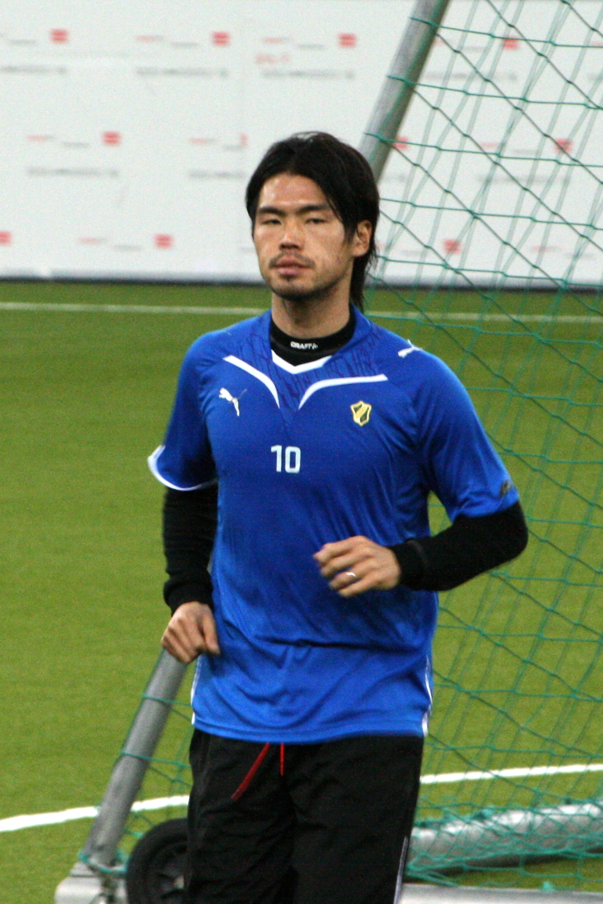 Japanese footballer Daigo Kobayashi.